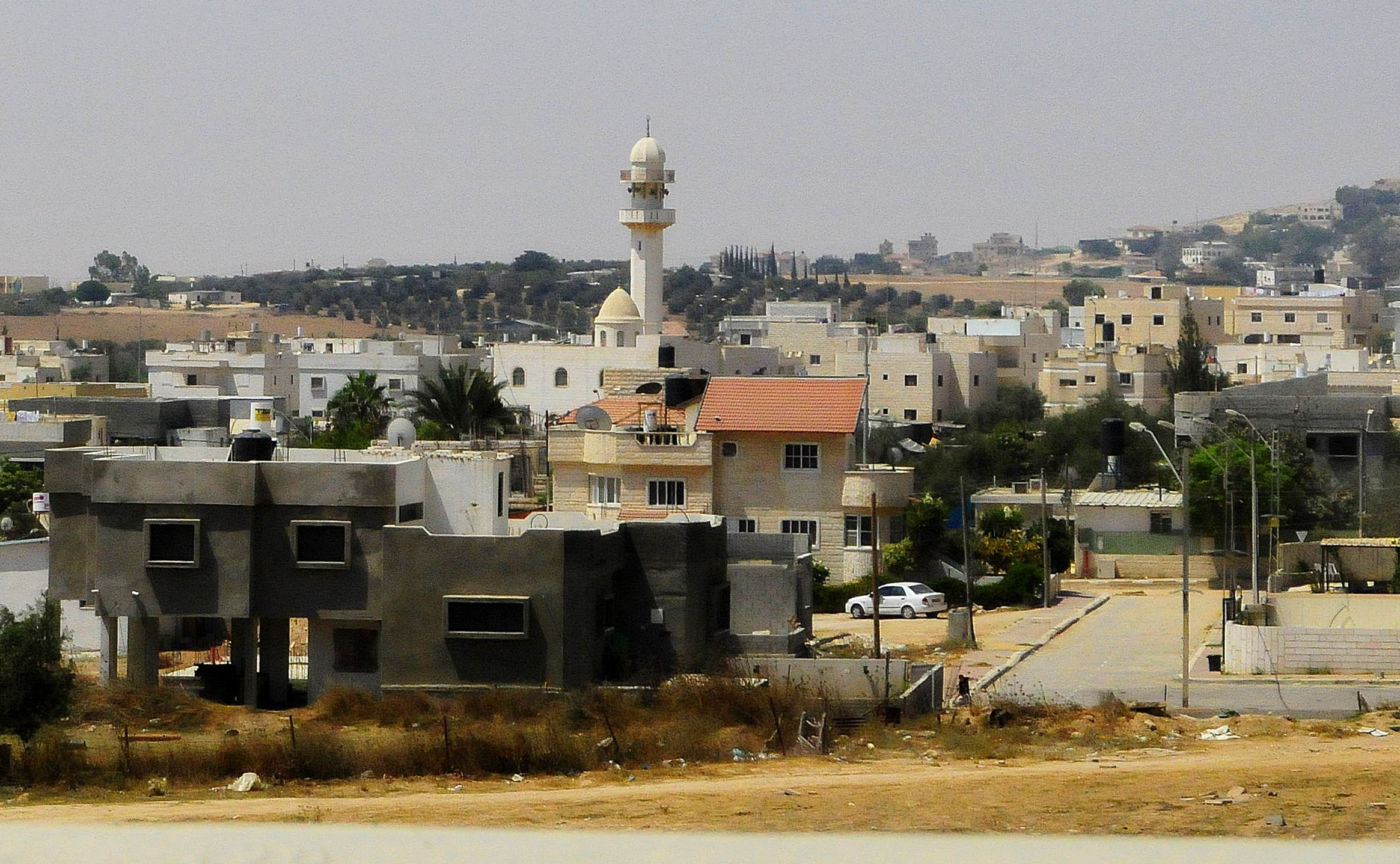 al-Sayyid, an entrance to the township